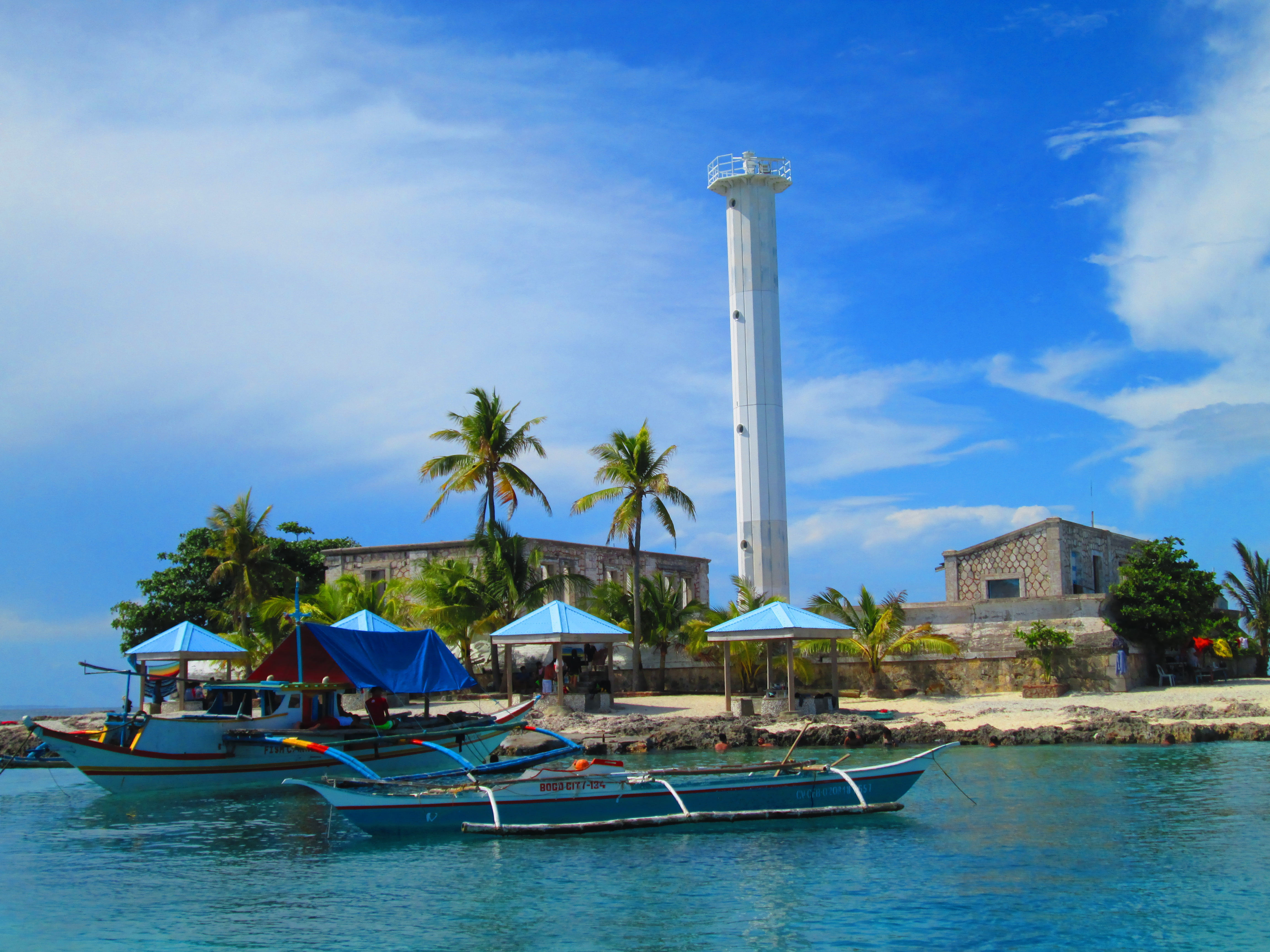 The Steel-tower lighthouse in Capitancillo Island and the tourists cabanas and boats